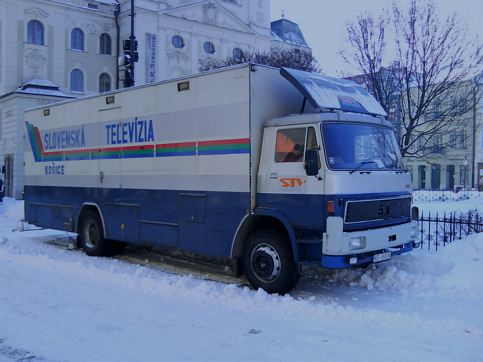 Outside broadcasting van LIAZ 100.020 of Slovak television (STV) parking at Main Street, Košice